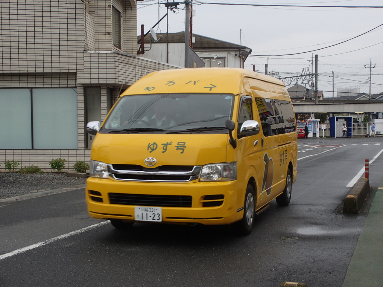 A "Moro Bus" community bus near Higashi-Moro Station on the Tobu Ogose Line in Moroyama, Saitama Prefecture, Japan